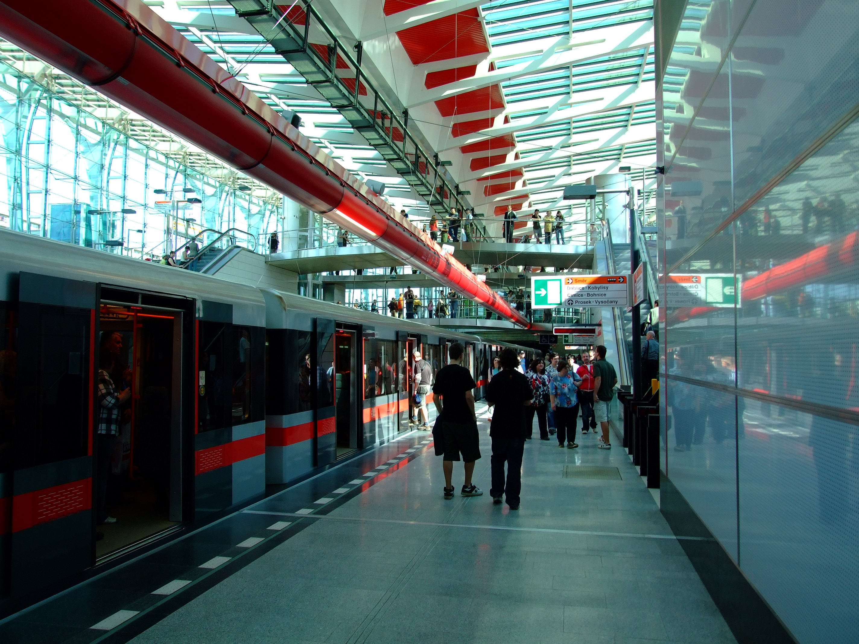 Střížkov metro station in Prague, several hours after opening for public